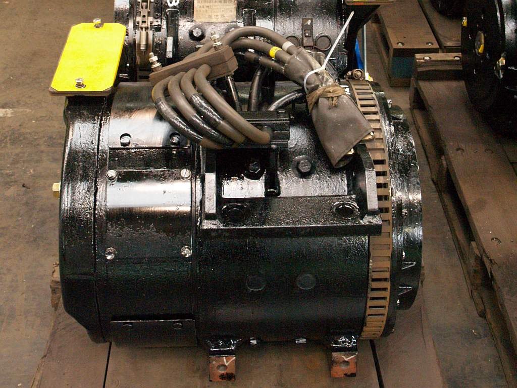 Type MT61 motor for JNR 205 Type EMU.